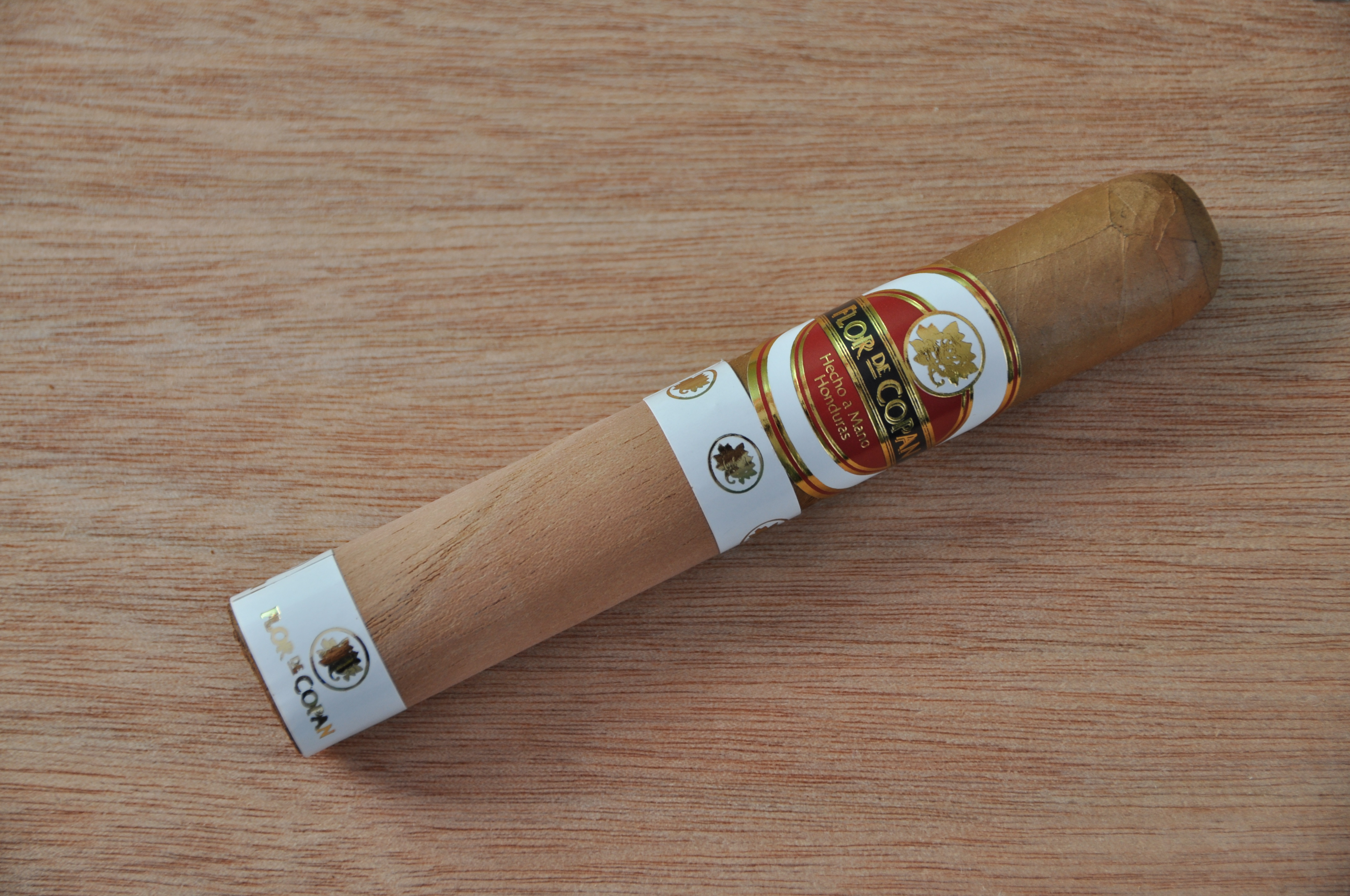 Flor De Copán Rothschild cigar